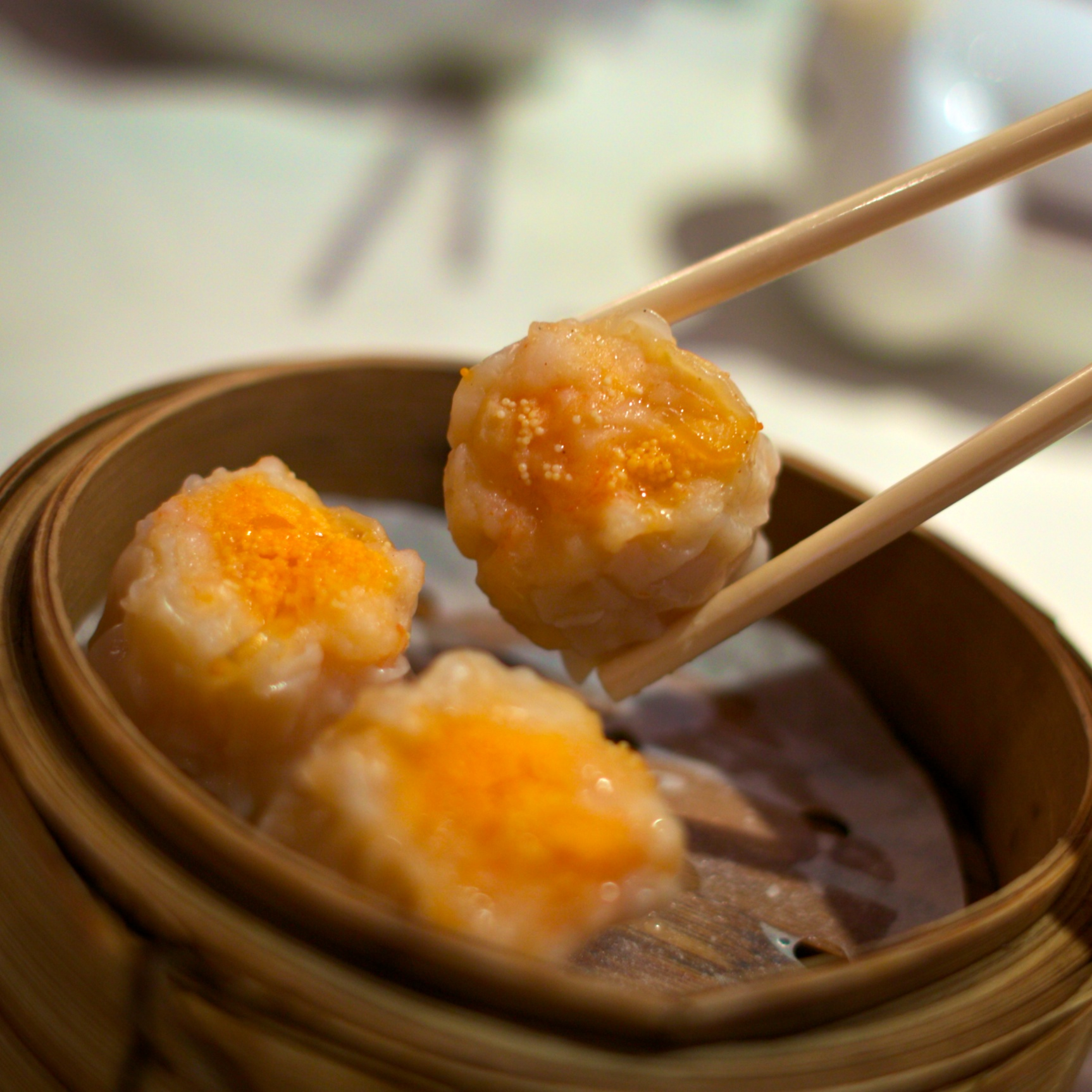 Shark fin dumpling